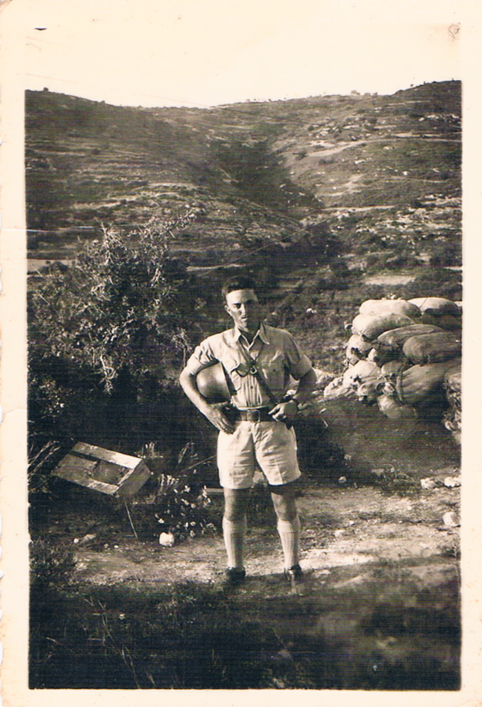 Jacob (Eugene, Jean) Salomon, Kibbutz Hanita, western Galilee, 1938